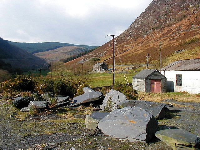 Quarry debris at Aberllefenni Looking towards Mynydd Cambergi. The Blue Cottages can be seen in the centre of the view.